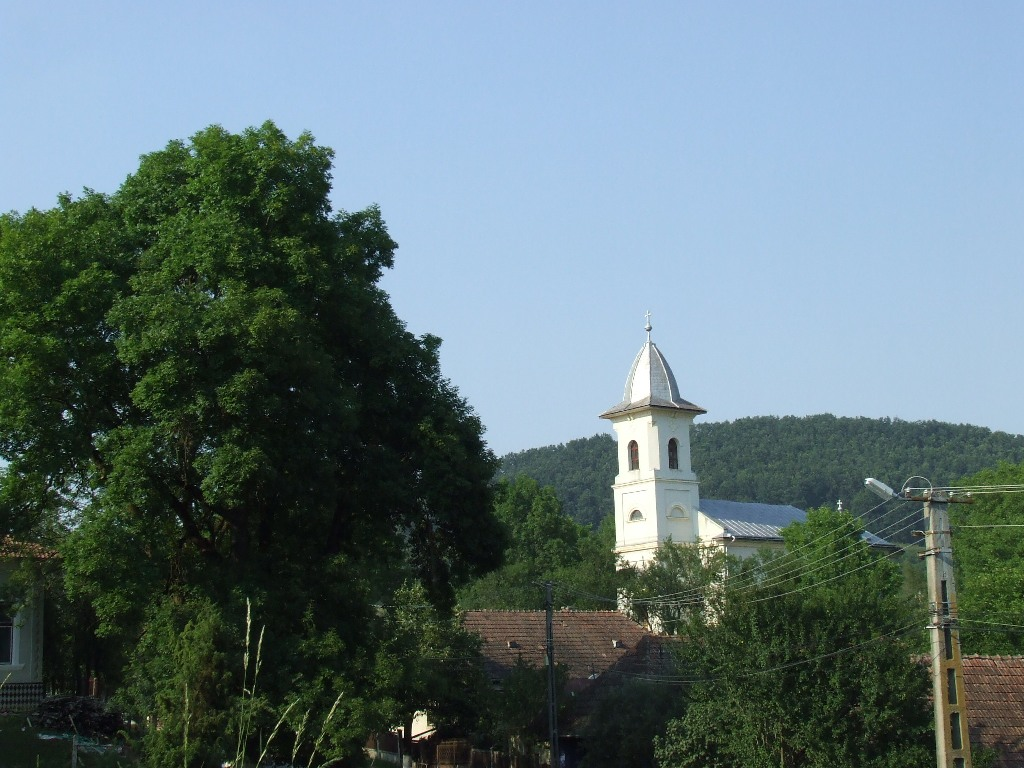 Orthodox Church Treznea, Sălaj County, Romania